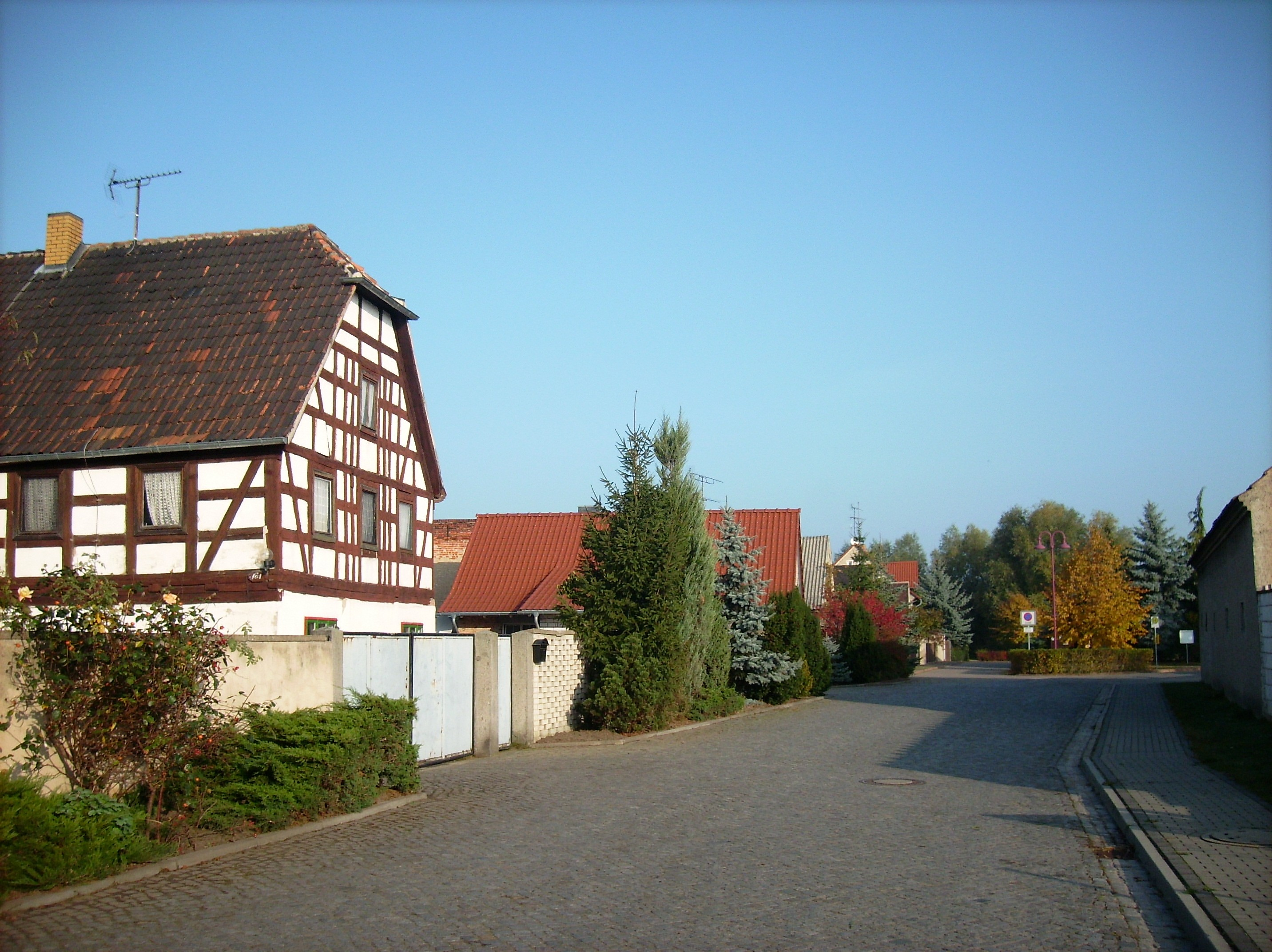 Lindenstrasse in Rehfeld (Falkenberg/Elster, Elbe-Elster district, Brandenburg)